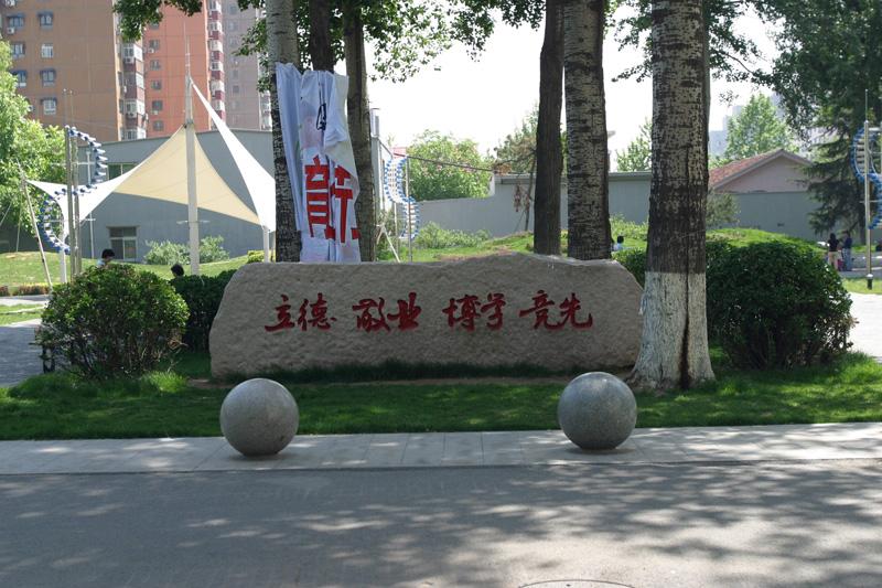 Communication University of China campus